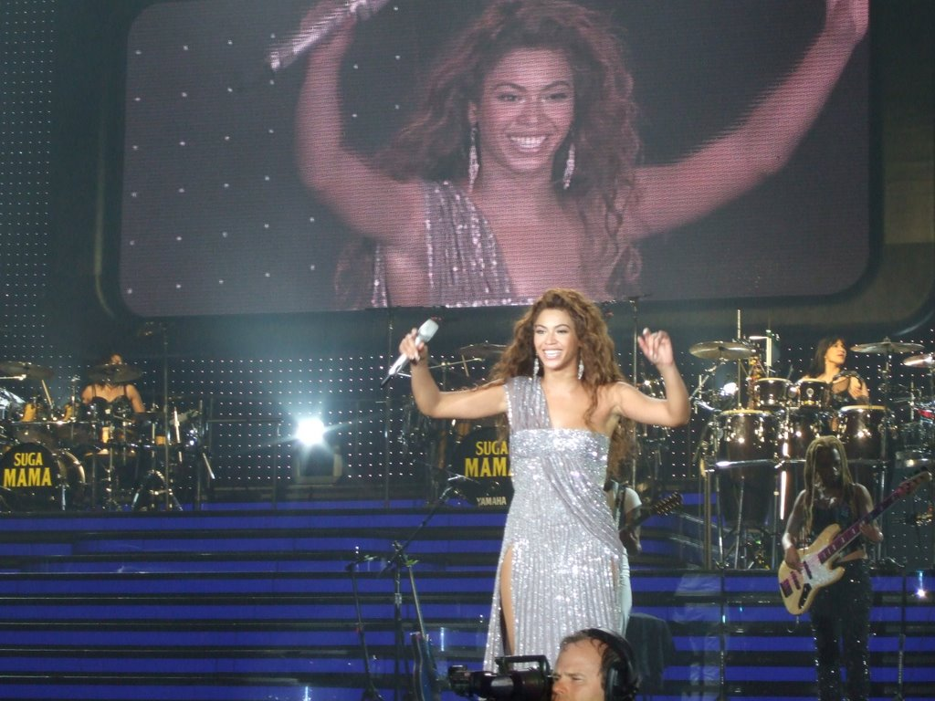 Beyoncé on tour The Beyoncé Experience in 2007.